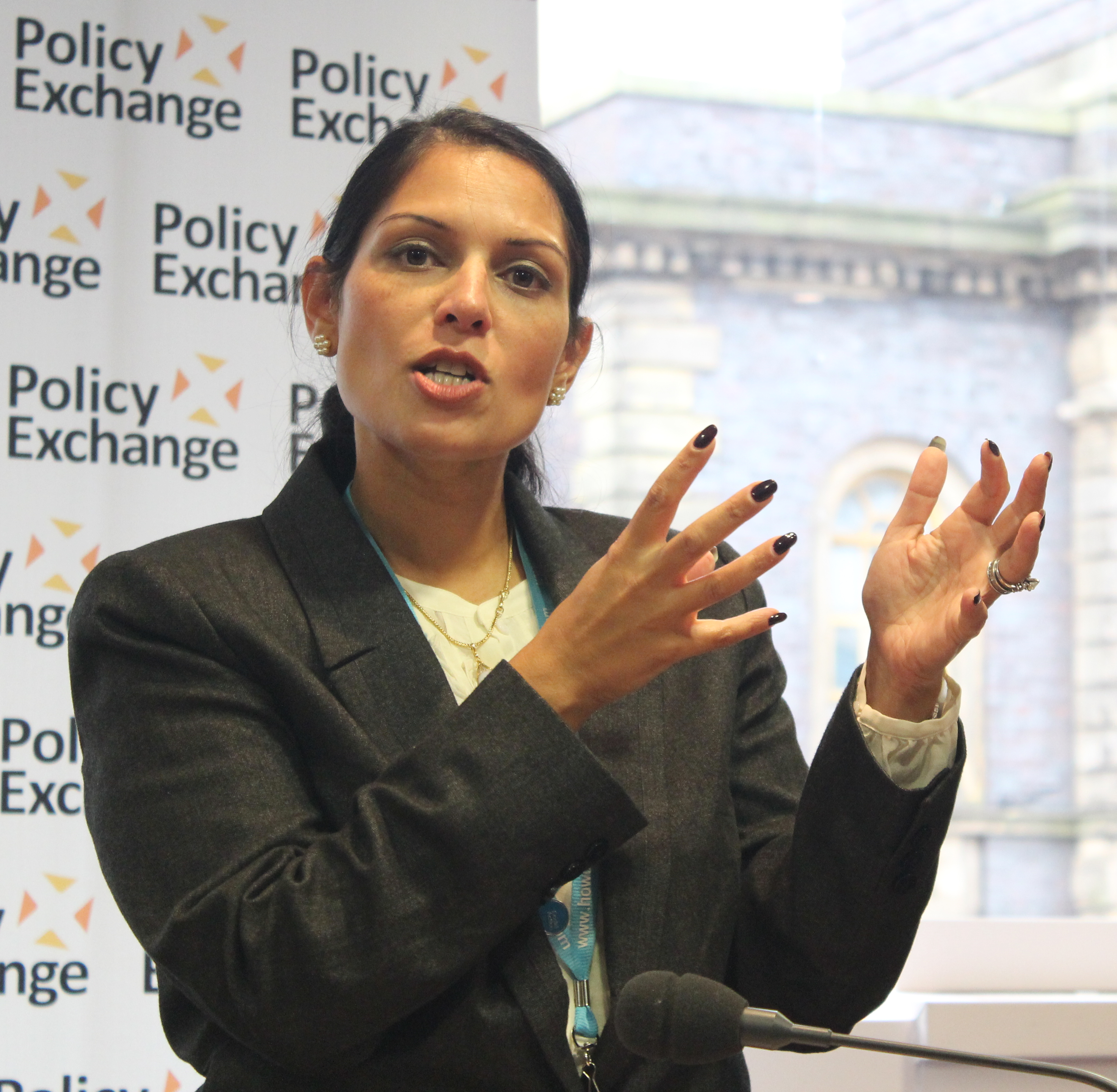 Priti Patel, Conservative MP for Witham.